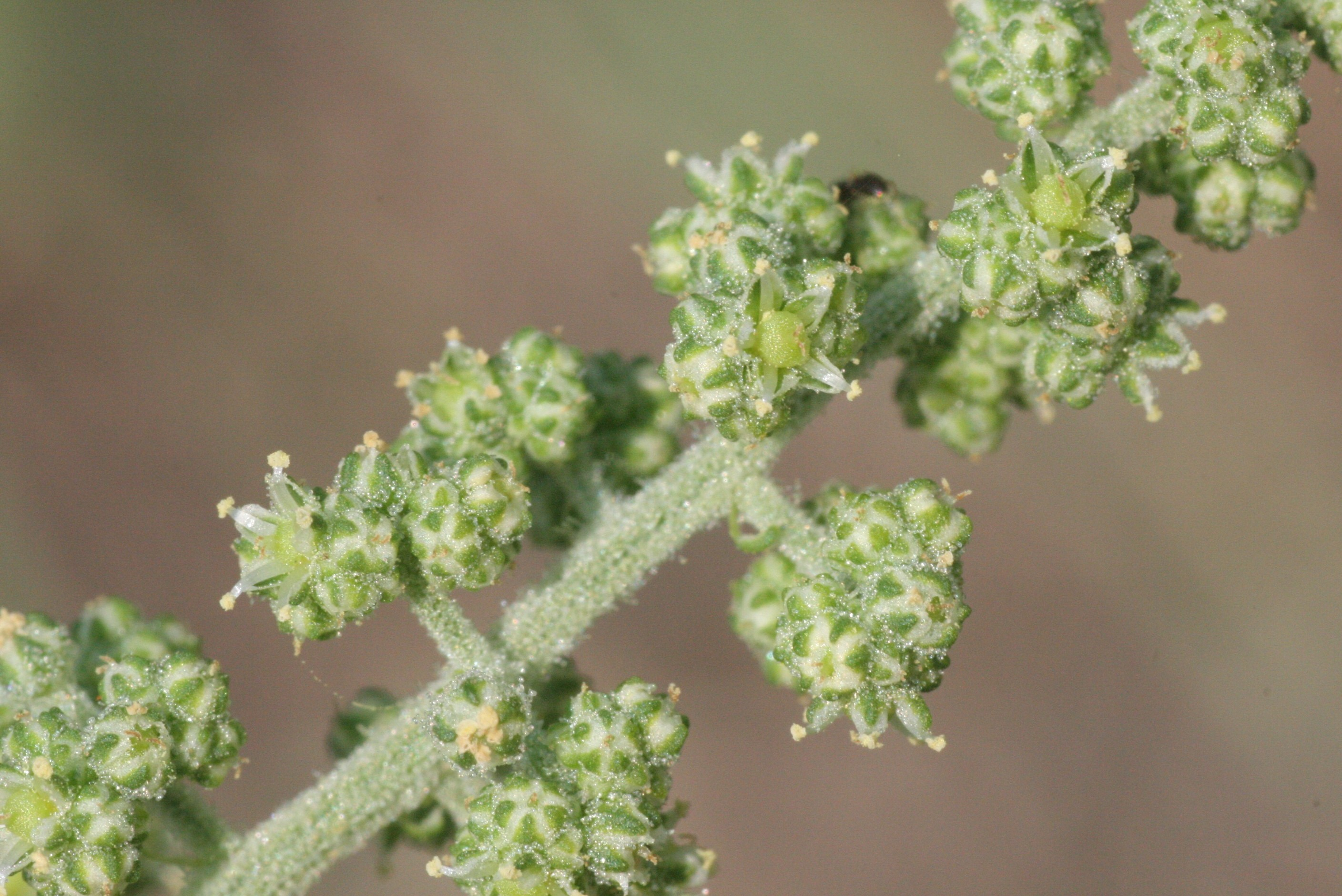 Chenopodium hybridum